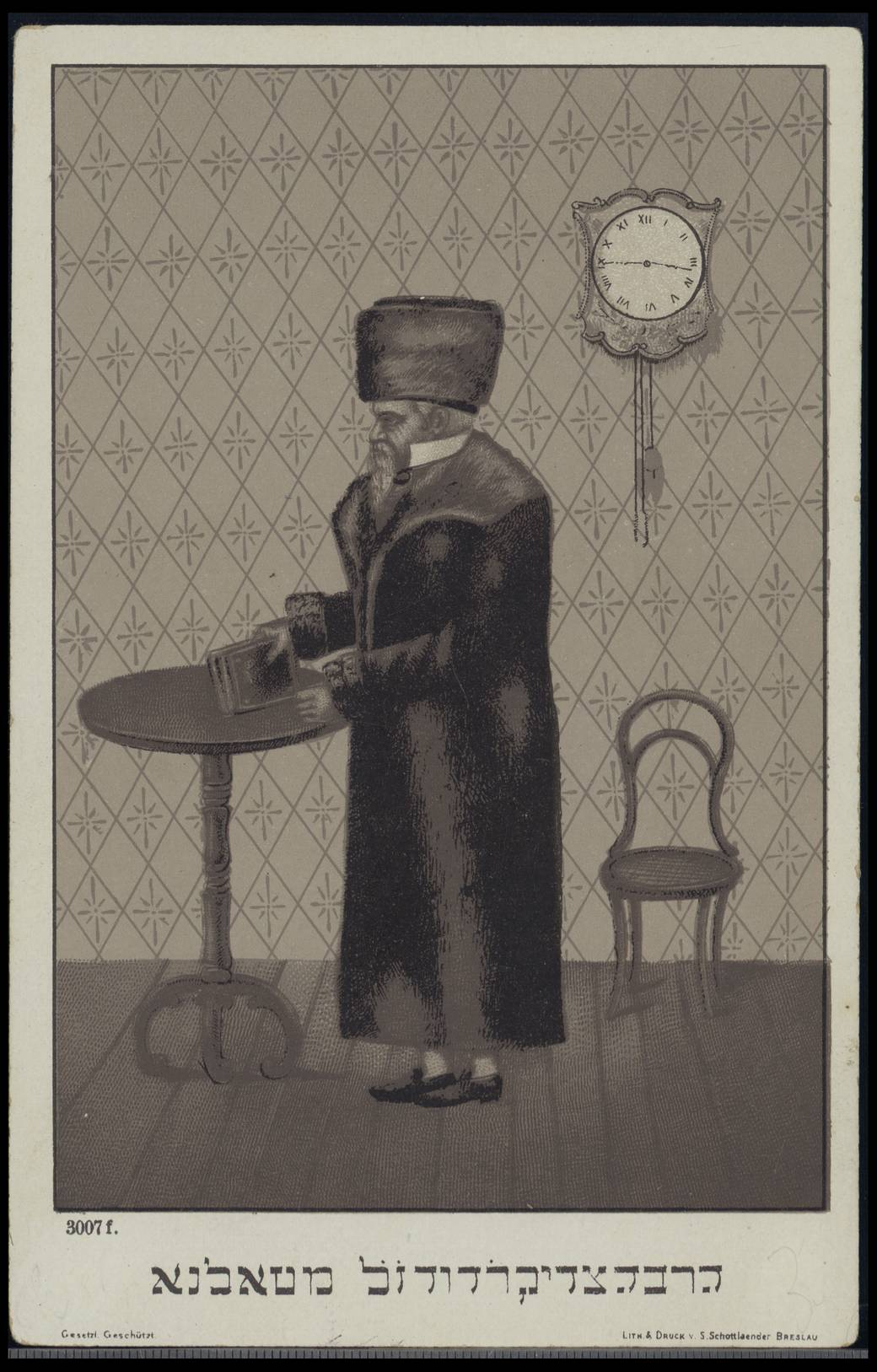 Picture of Rabbi David of Talne